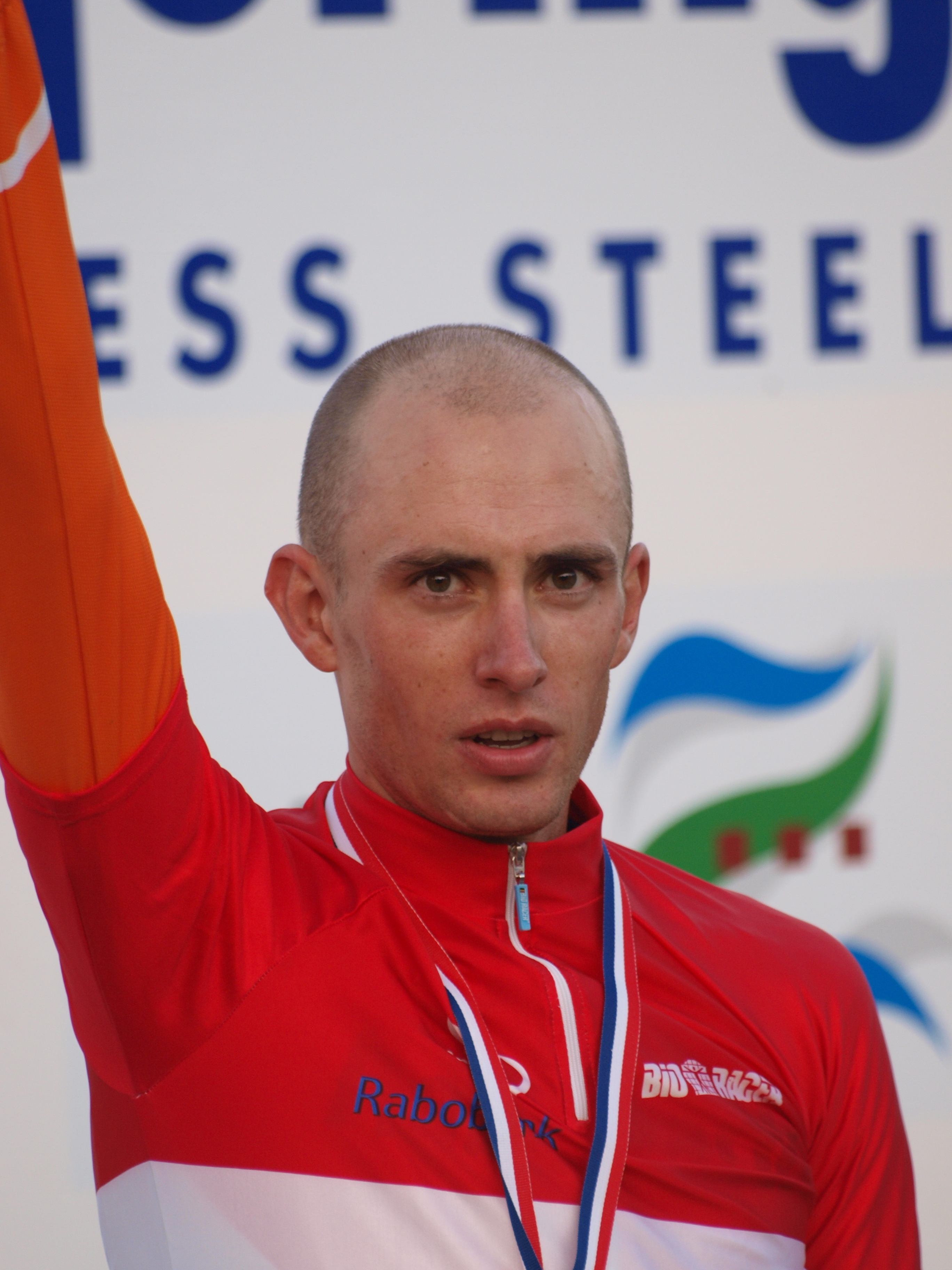 Stef Clement celebrating winning the 2009 Dutch time trial championships.